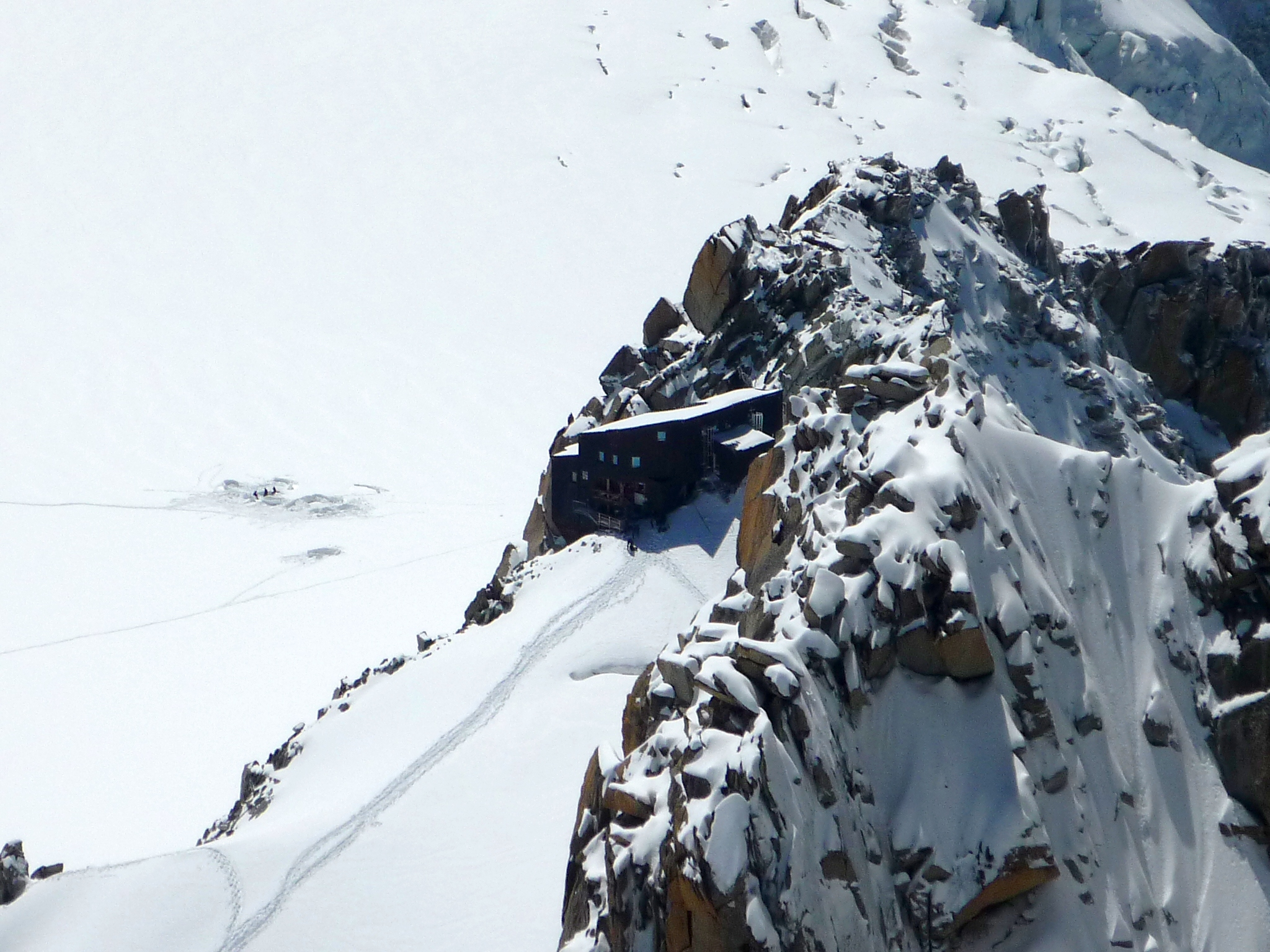 Cosmiques shelter seen from aiguille du Midi, Chamonix-Mont-Blanc, Haute-Savoie, France